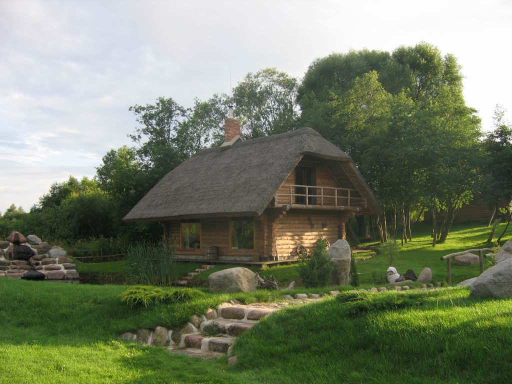 In Padvarai near Kretinga, close to Palanga